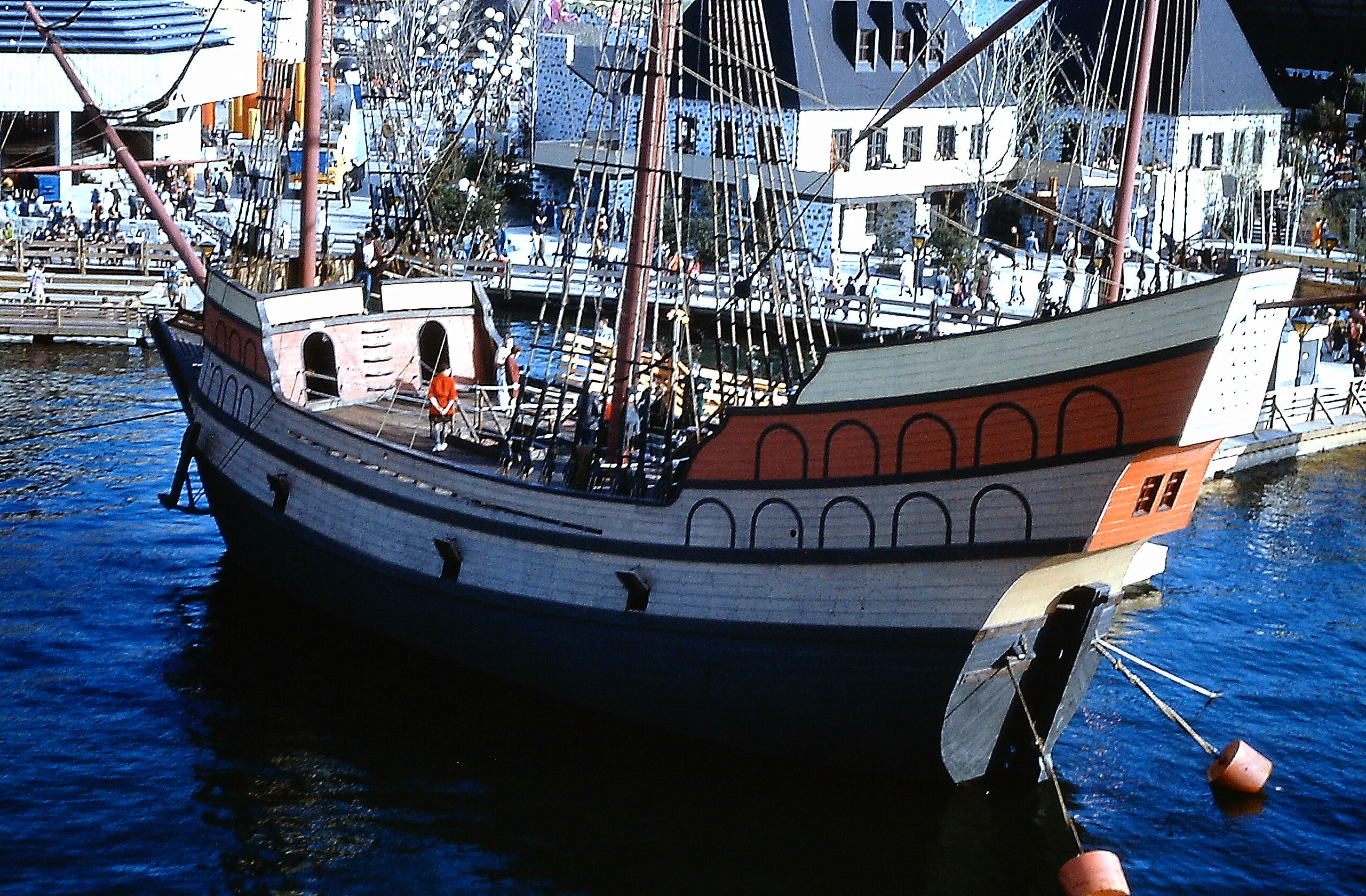 Replica of La Grande Hermine, Jacques Cartier boat, at Universal Exposition of 1967, Montreal, Quebec, Canada